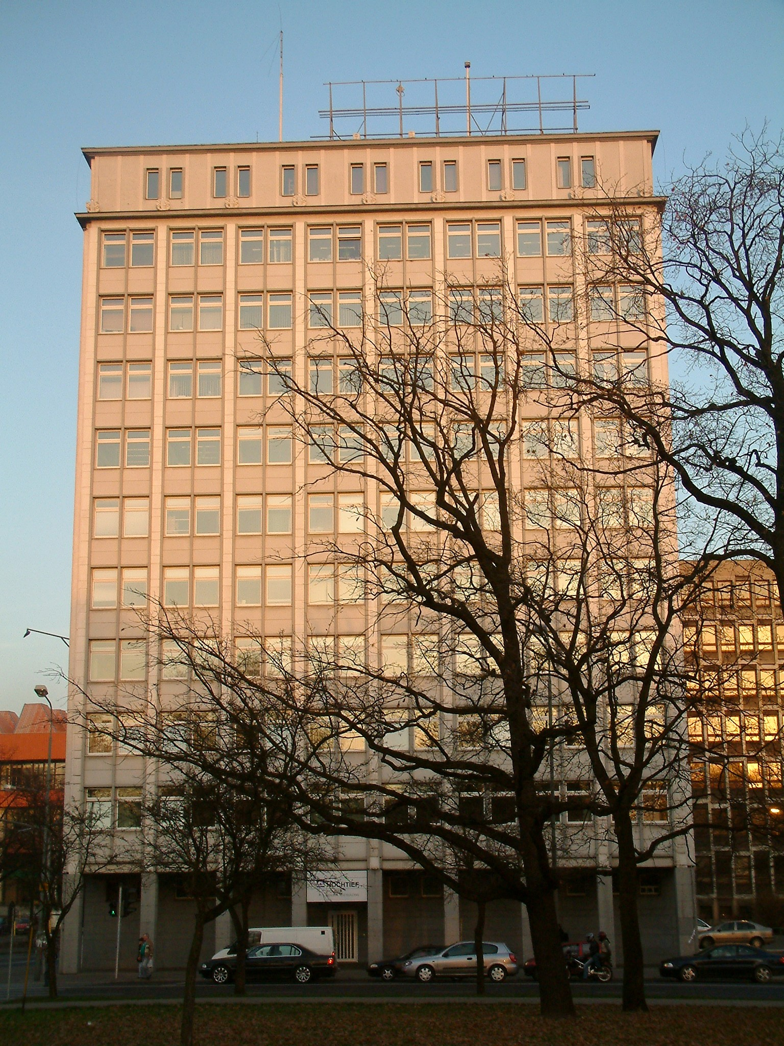 First High-rise in Poznań